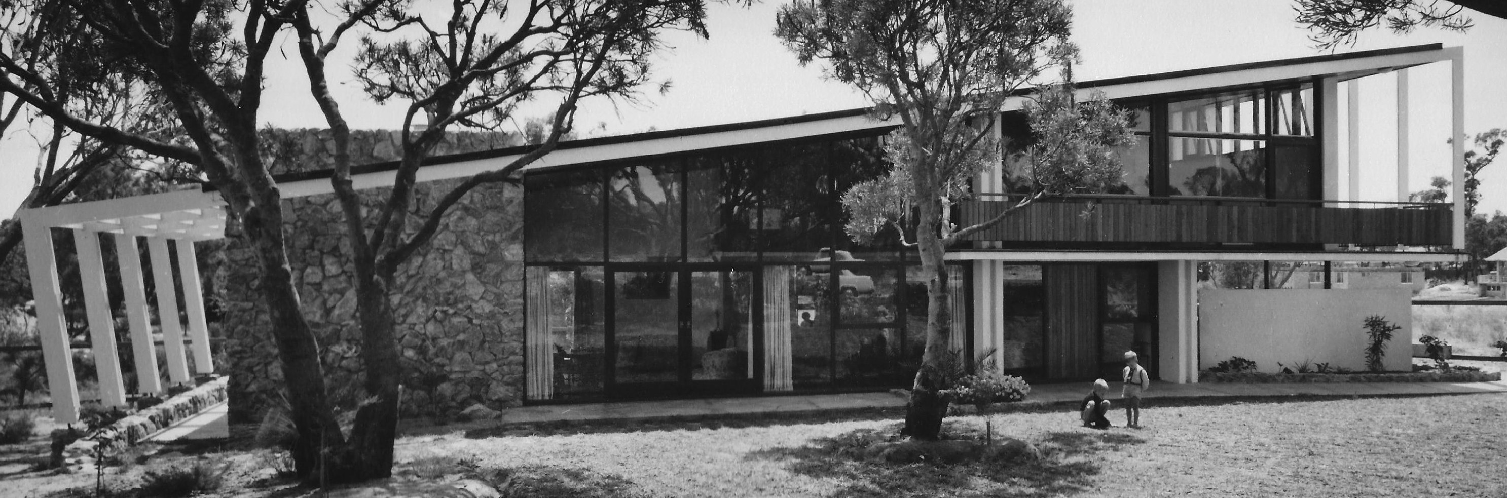 Shows south front of the Schmidt-Lademann House designed by Iwan Iwanoff and built 1958 by the German consul in Perth Floreat Park WA. Image was taken 1959 by Fritz Kos.